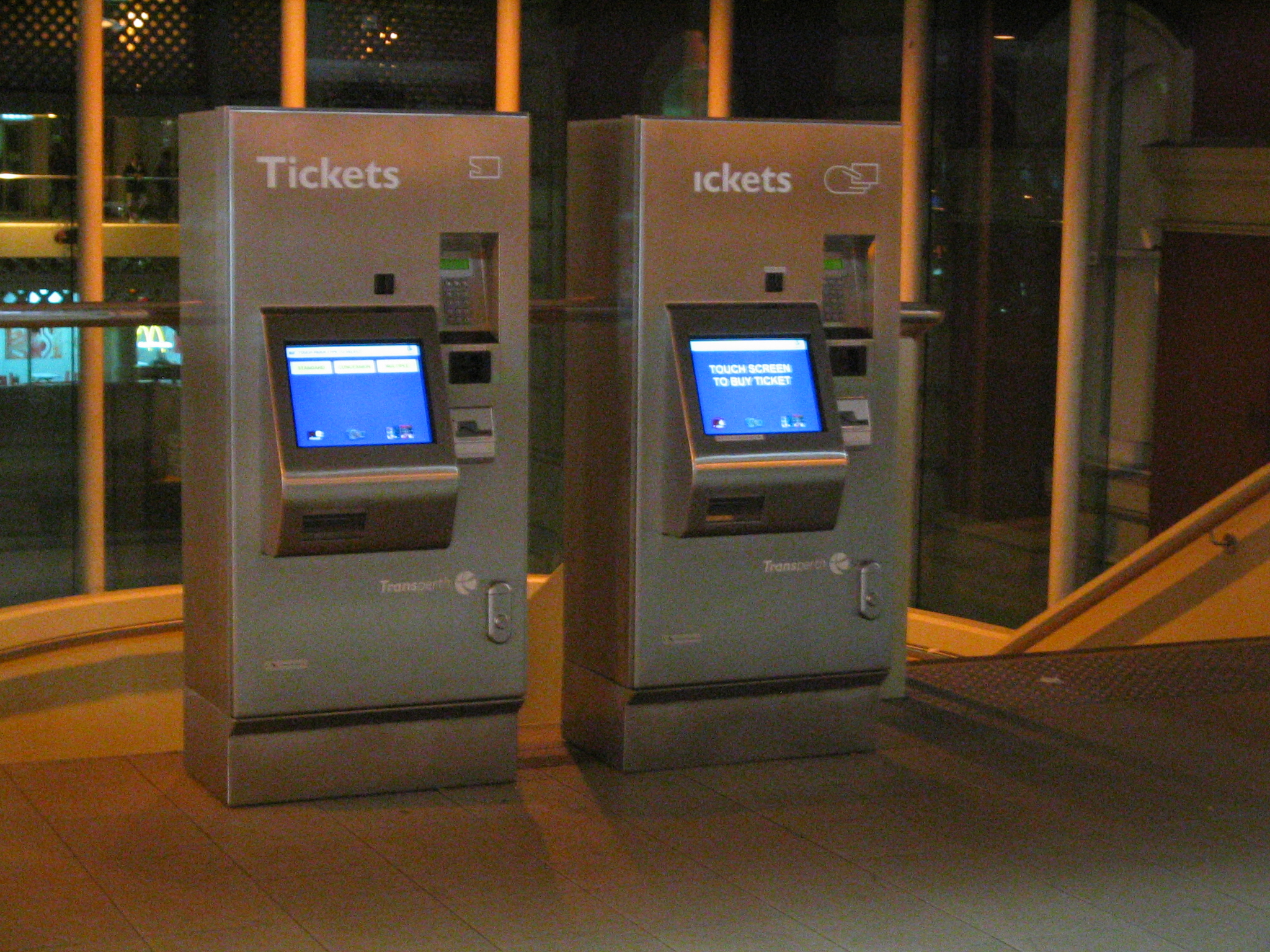 Two new Ticket Vendering Machines at the East concourse, Perth railway station.